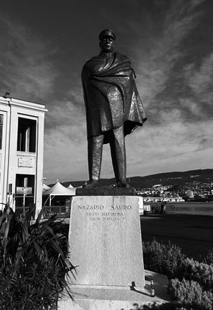 "Nazario Sauro" monument in Trieste, Stazione Marittima